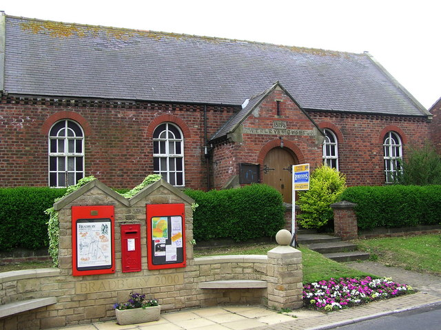 Former Wesleyan chapel at Bradbury, County Durham, built in 1895 and now for sale